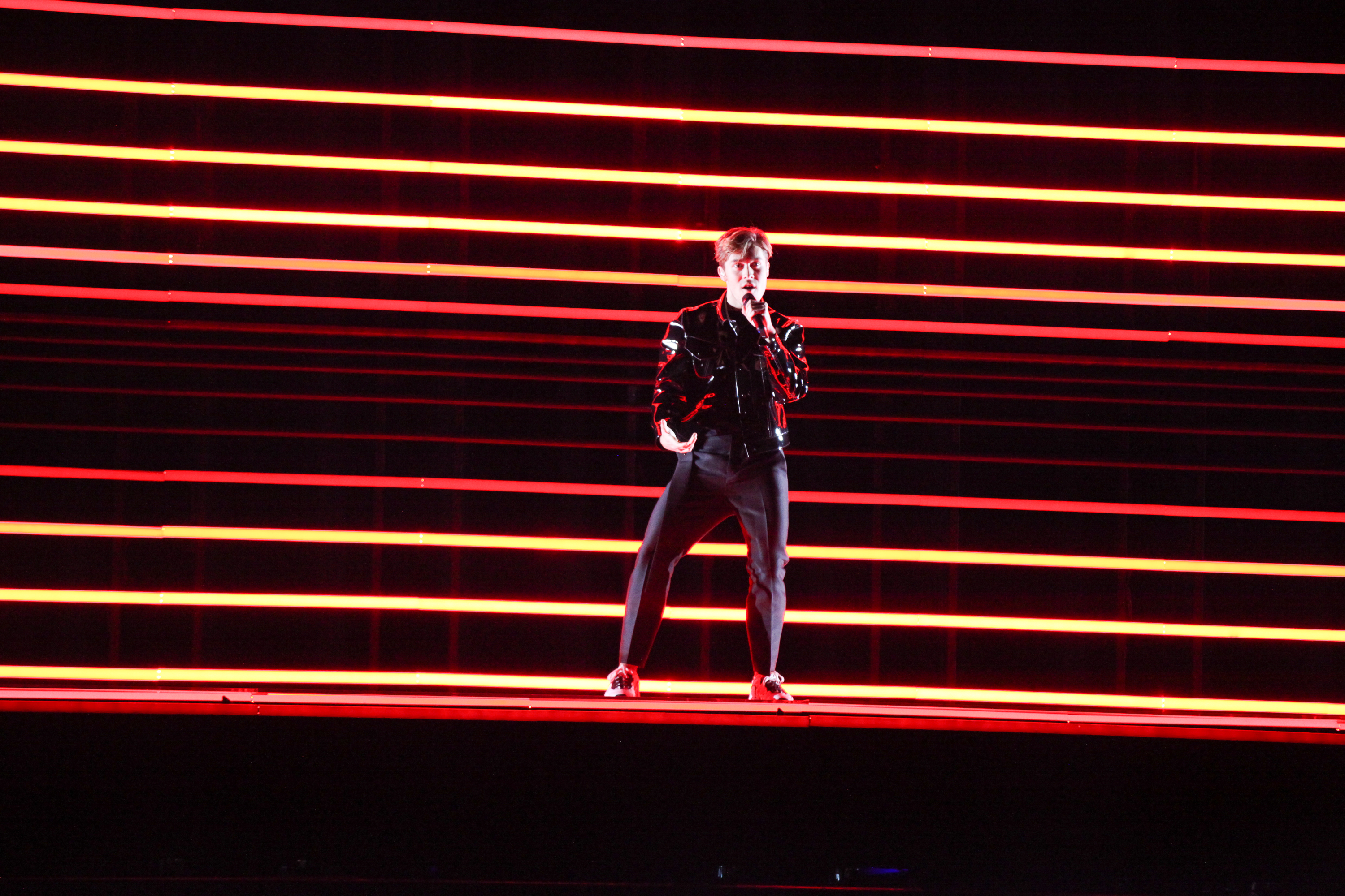 Benjamin Ingrosso representing Sweden with the song "Dance You Off" during a rehearsal before the second semi final of the Eurovision Song Contest 2018 in Lisbon.